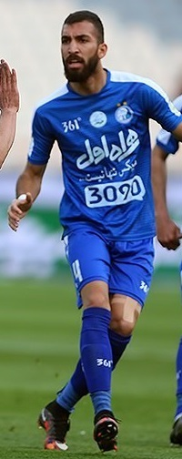 Rozbeh Cheshmi